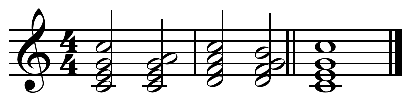 Conventional progression or cadence without tritone substitution, ie, NOT Tadd Dameron turnaround. I−VI−ii−V (I-V/ii-ii-V). Created by Hyacinth (talk) 06:01, 7 December 2010 using Sibelius 5.